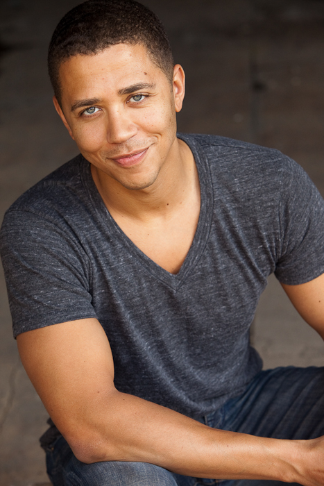 Actor/Comedian Reggie Brown is best known for his impression of US President Barack Obama